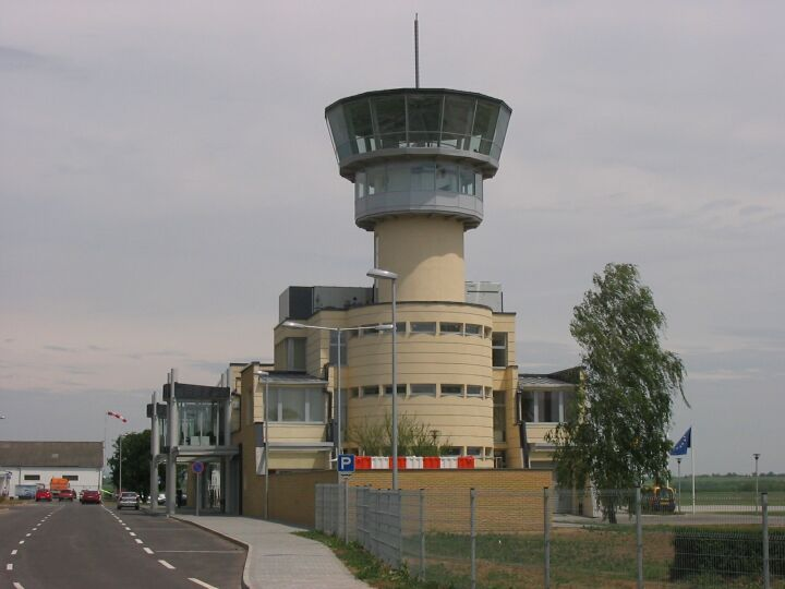 Pogány international airport, Hungary